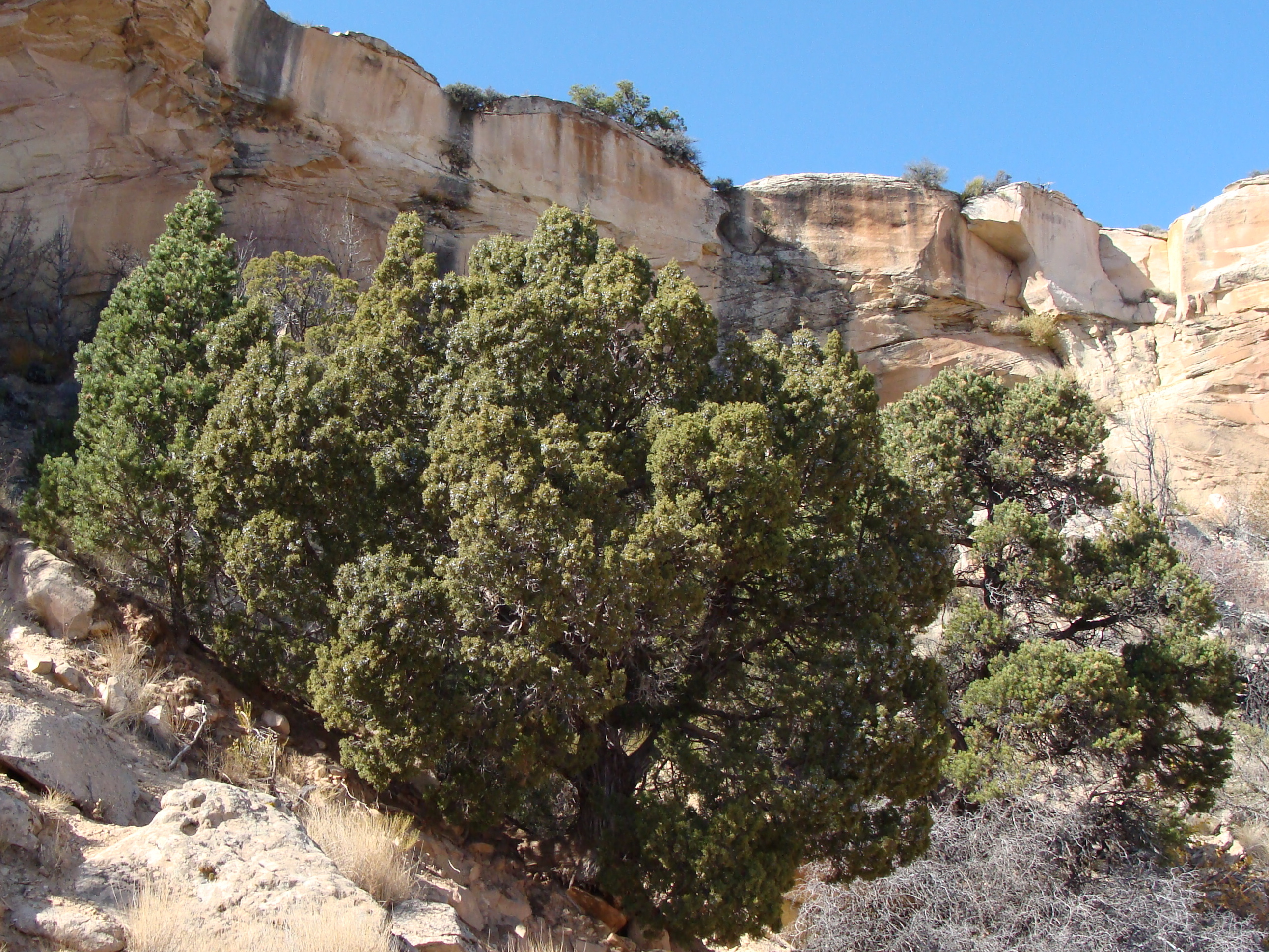 Juniperus osteosperma (Utah Juniper) and Pinus edulis (Piñon pine). On the Serpents Trail, in Colorado National Monument, near Grand Junction, western Colorado. 1,715 metres (5,627 ft) altitude — 39°1'52"N 108°38'27"W.